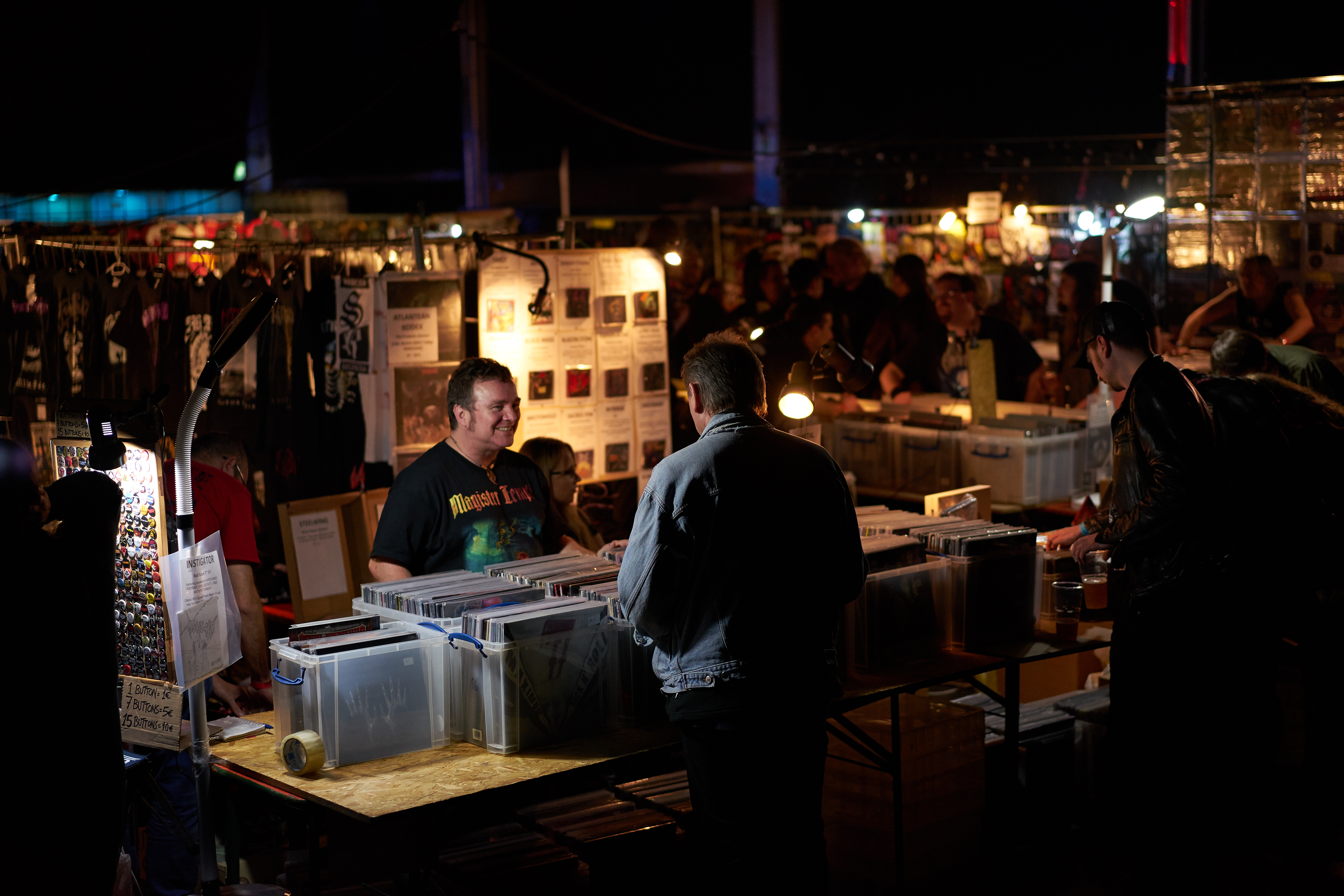 Marketplace of the tenth "Hammer of Doom"-Festival in Würzburg, Germany, 2015